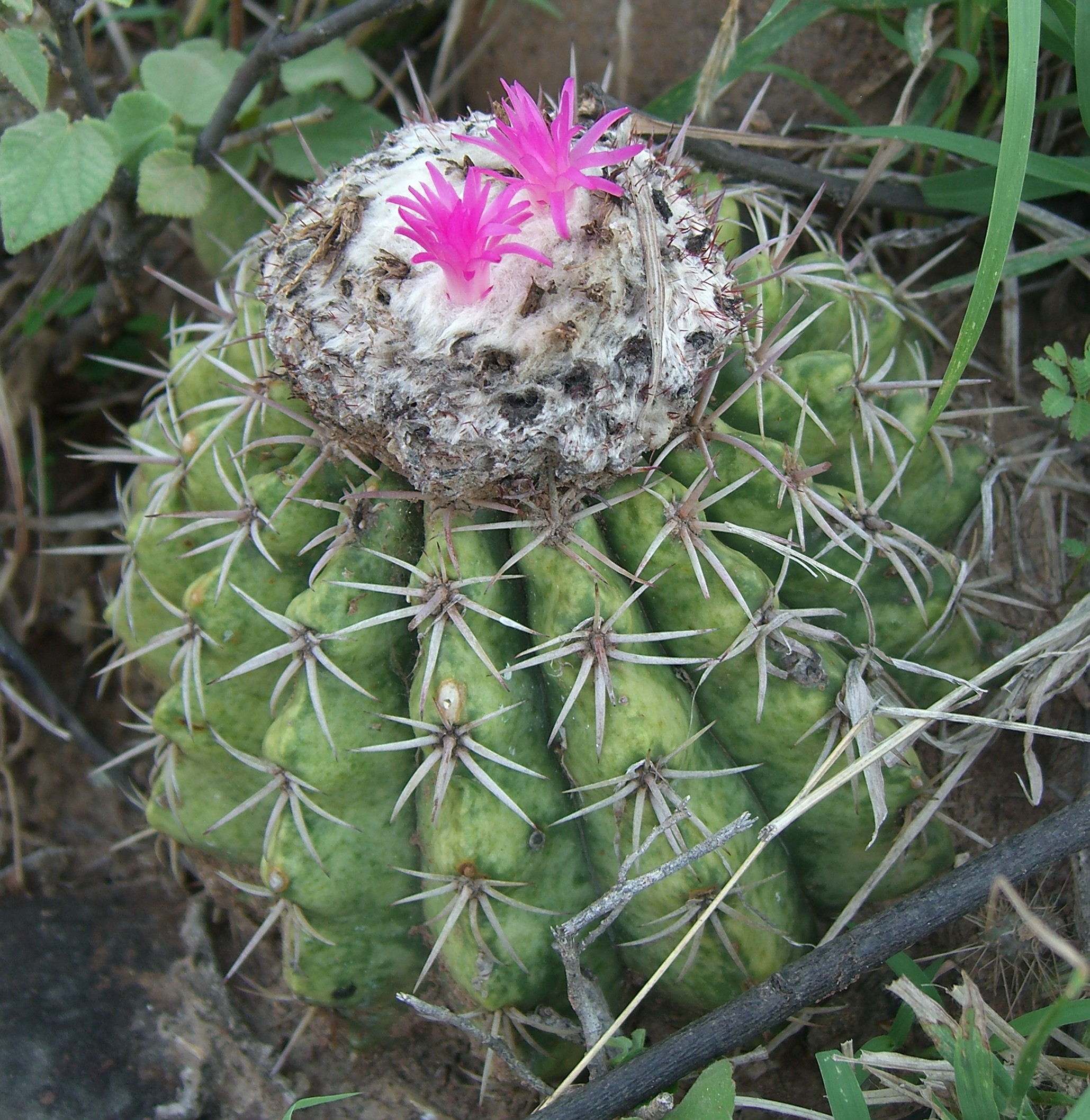 Determined by Benutzer:Succu